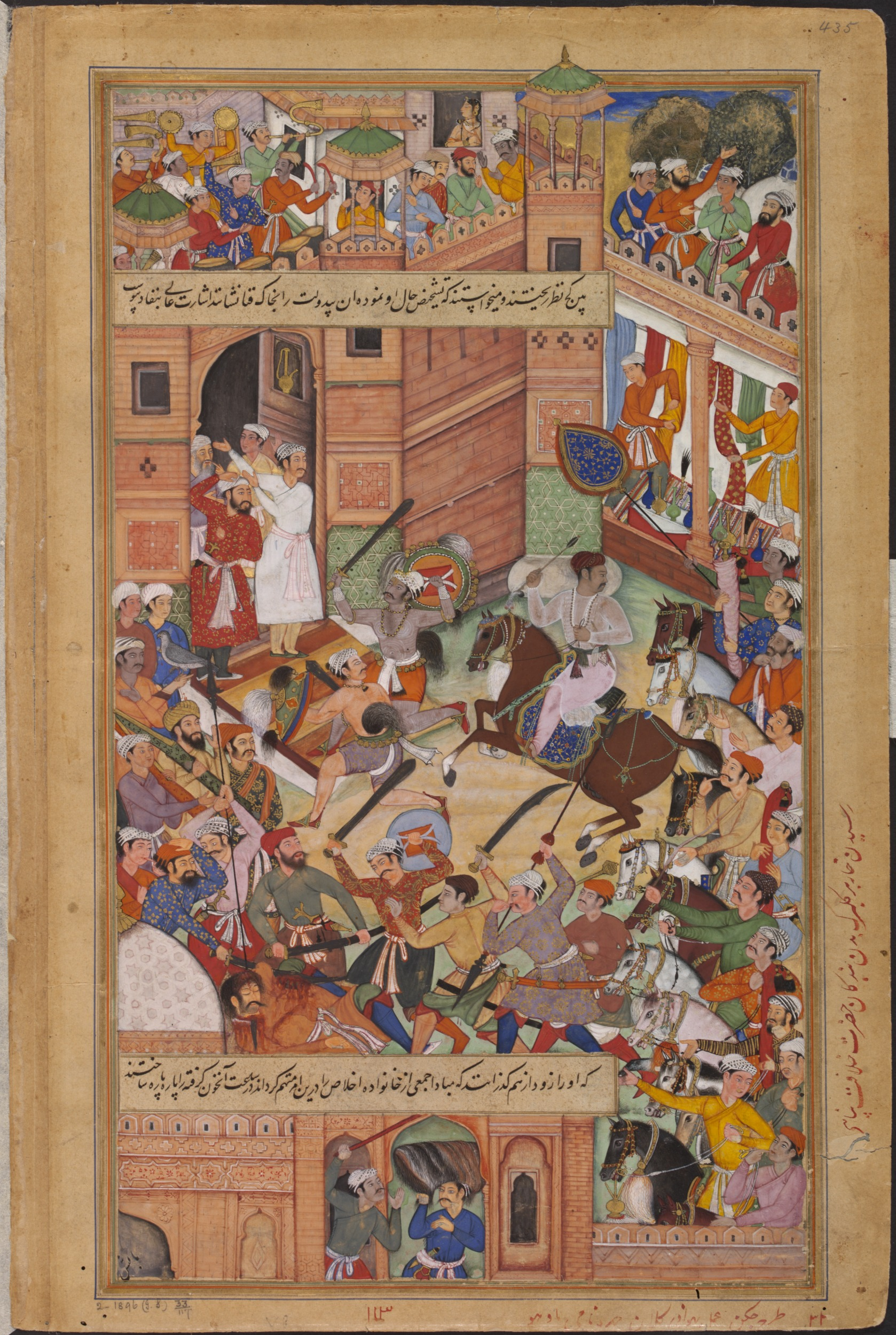 This illustration depicts an attempt on the life of the Mughal emperor Akbar (r.1556–1605) at Delhi in 1564. Akbar is shown in white on horseback clutching an arrow. His retainers pursue the would-be assassins and kill one of them. By Jagan with Bhawani the Elder and faces by Madhav